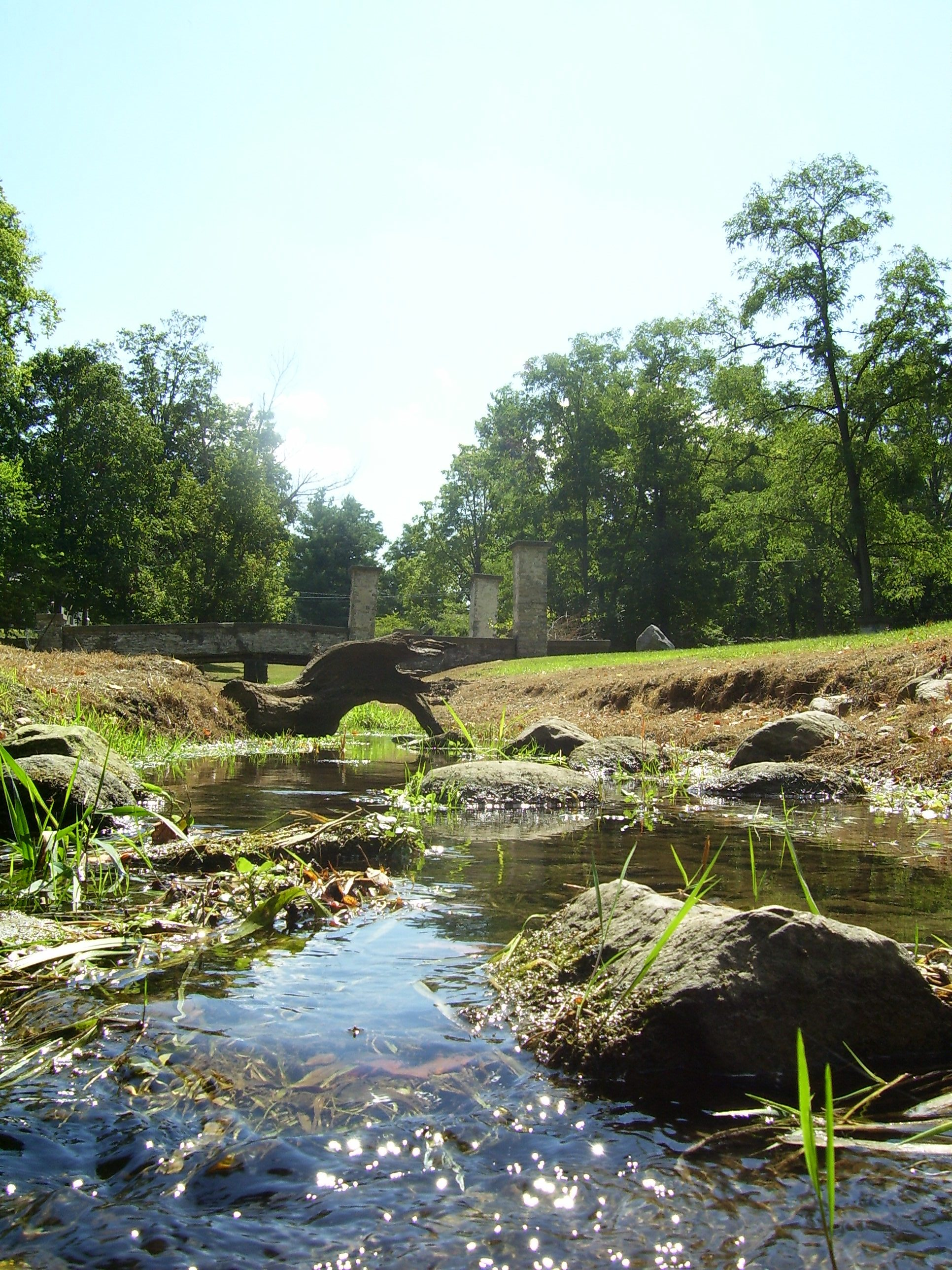 The park in Spiceland, Indiana